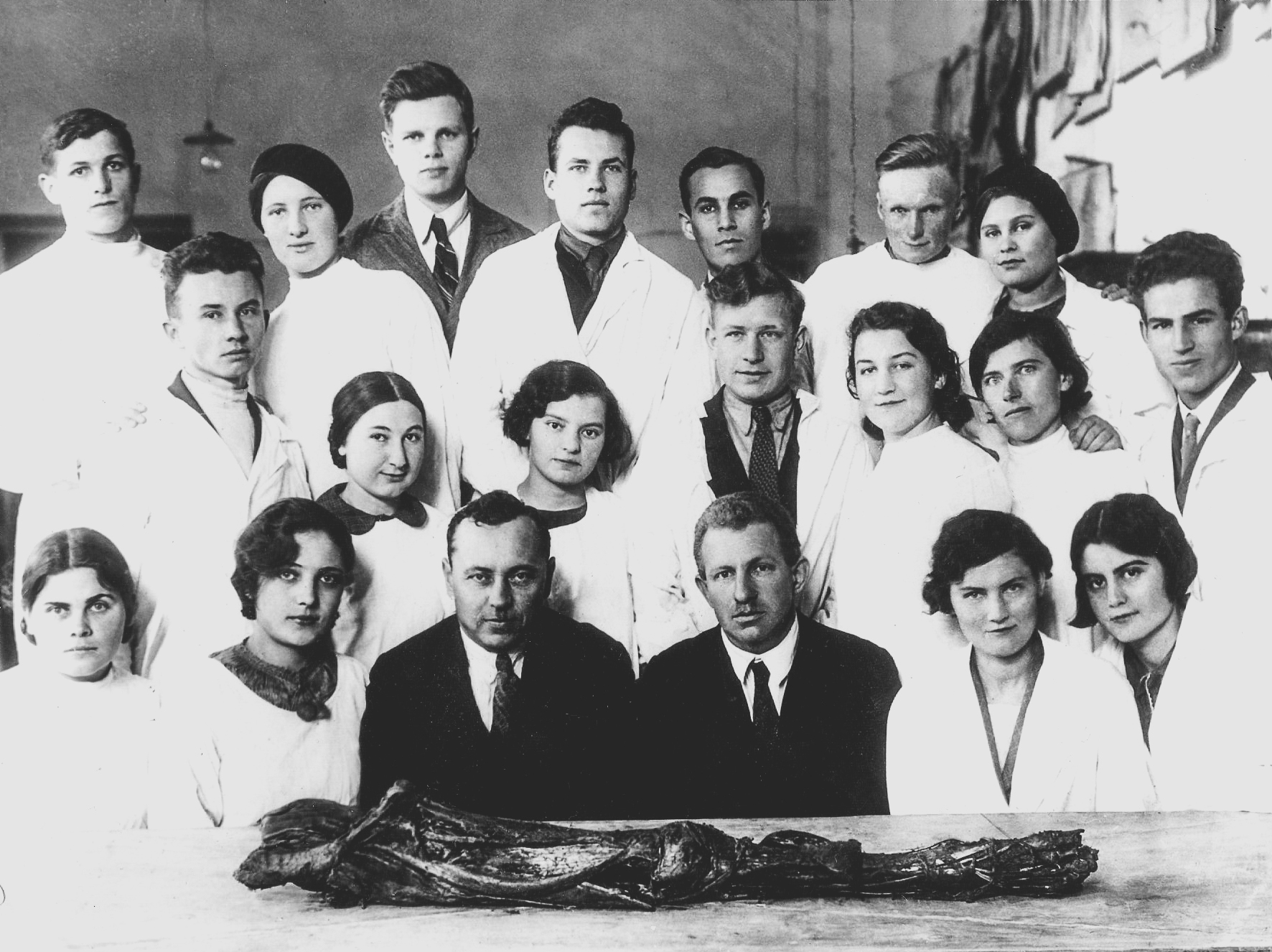 The students of the Odessa Medical Institute (now Odessa National Medical University) Group number 10, Therapeutic Faculty in the anatomy class. Identified on the photo (annotated) : Standing Mr. Ivan Mazur later Main Divisional Doctor of 30 Cavalry Division upper raw fifth from the left (center). Sitting professors Mr. Tsioma and Mr. Gofman. First from the right is Mr. August Leshke, later professor of pediatric surgery Perm Medical University. The photo date Sep 1 1935.